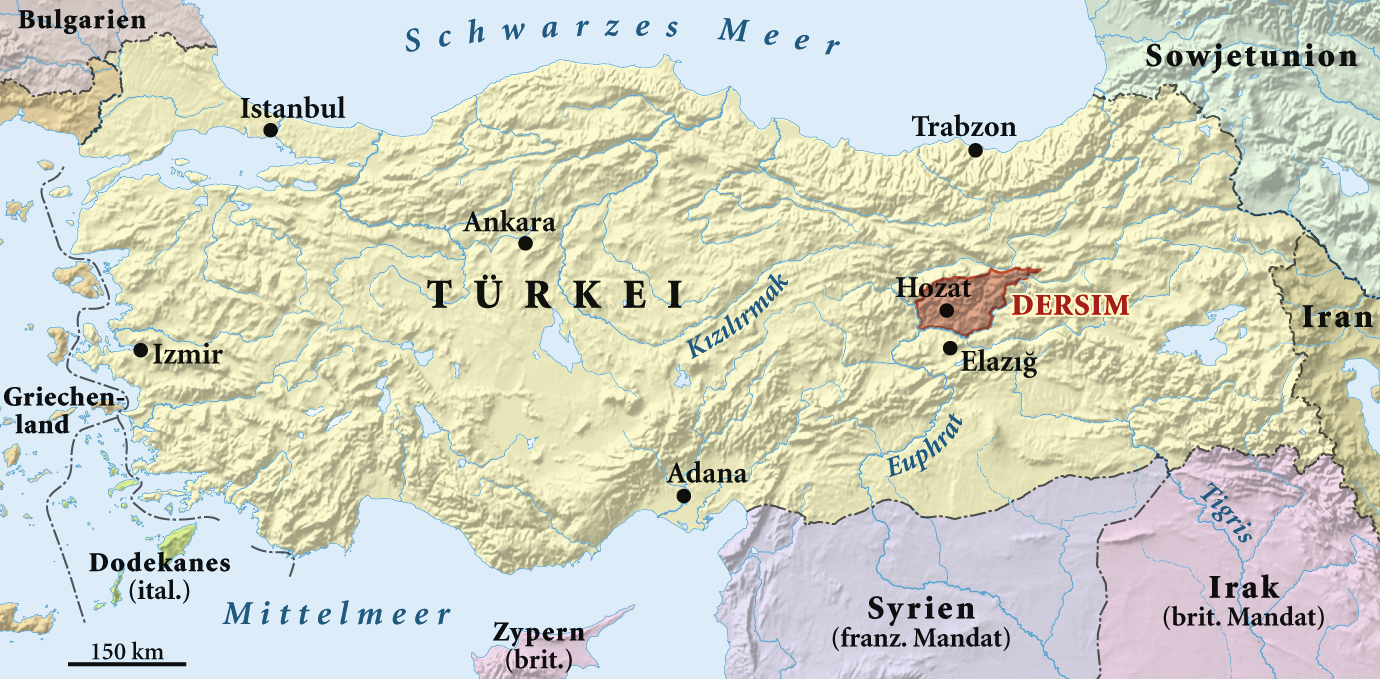 Dersim region in the mid 1930s, German version